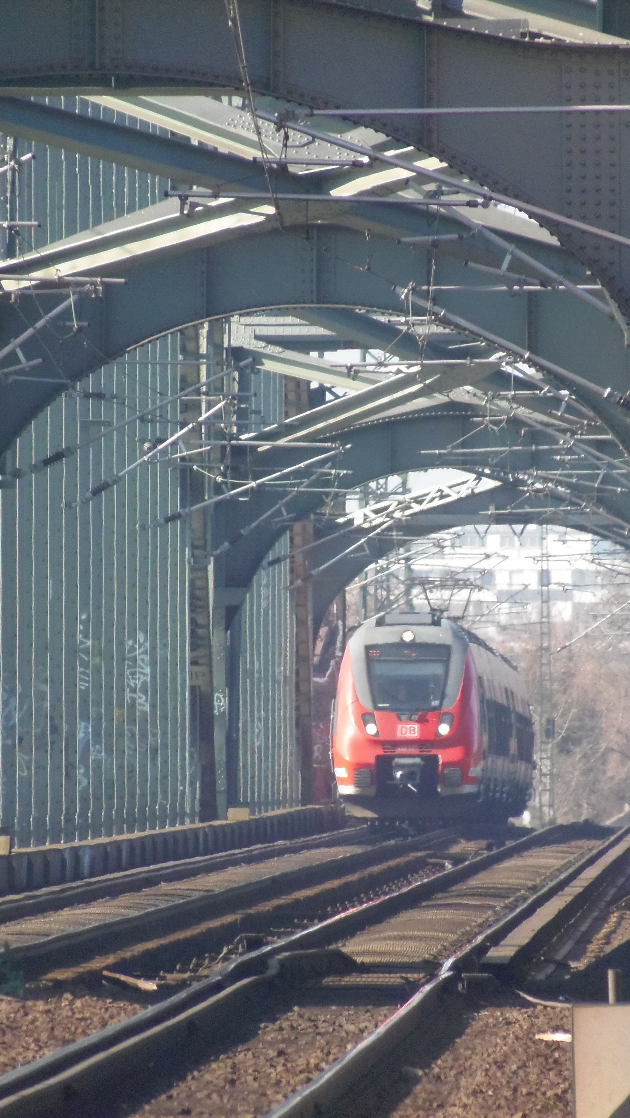 Train of the Line RE 9 on the Südbrücke in Cologne